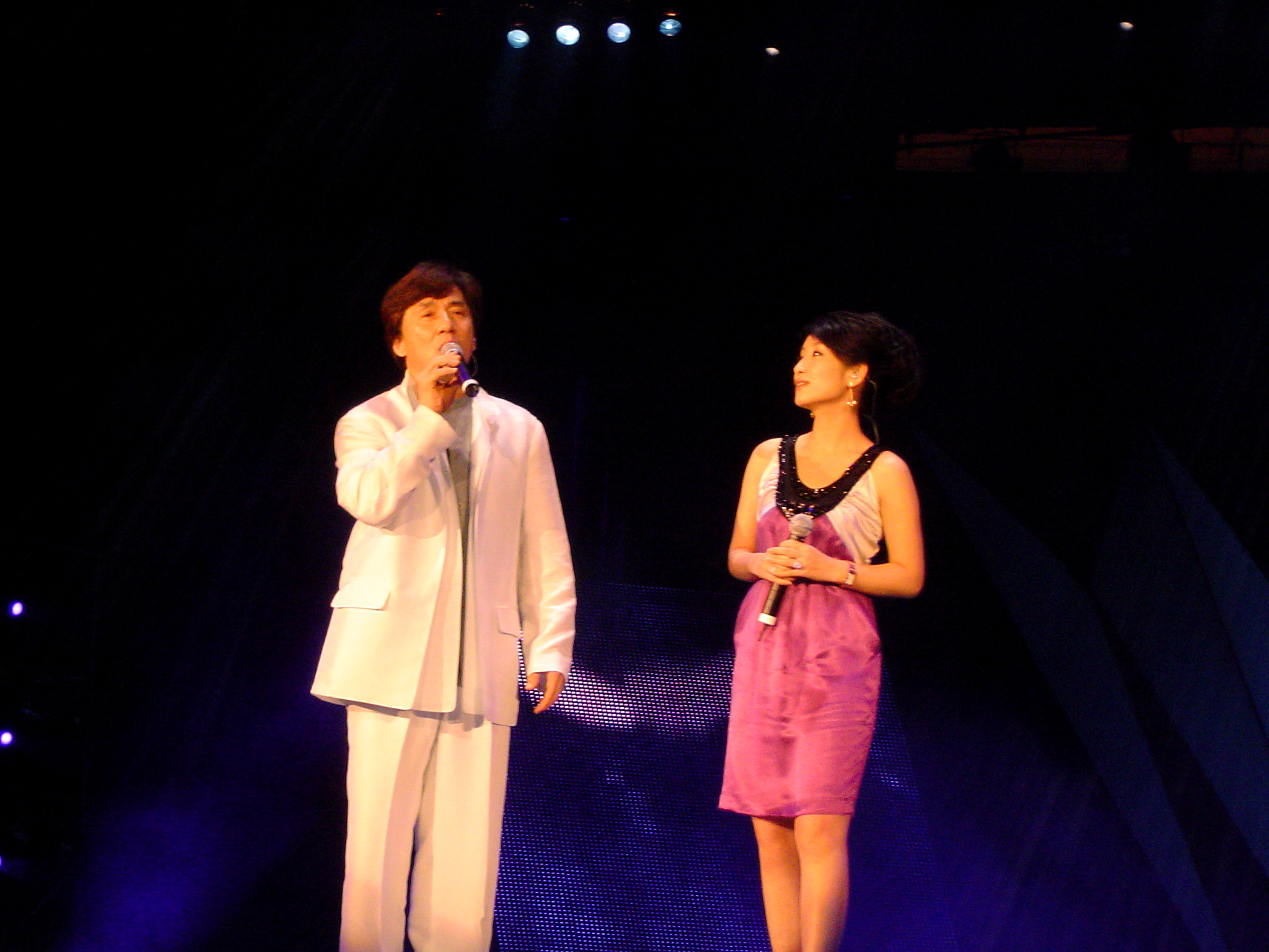 Jackie Chan and a female singer